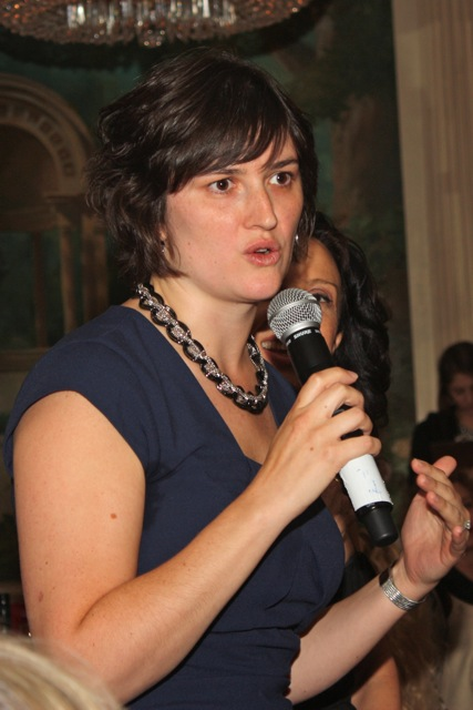 21 Leaders 2013 Honoree Sandra Fluke